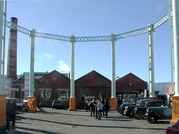 Dunedin Gasworks Museum, South Dunedin, New Zealand. Photograph by James Dignan (User:Grutness), 3 May 2009.